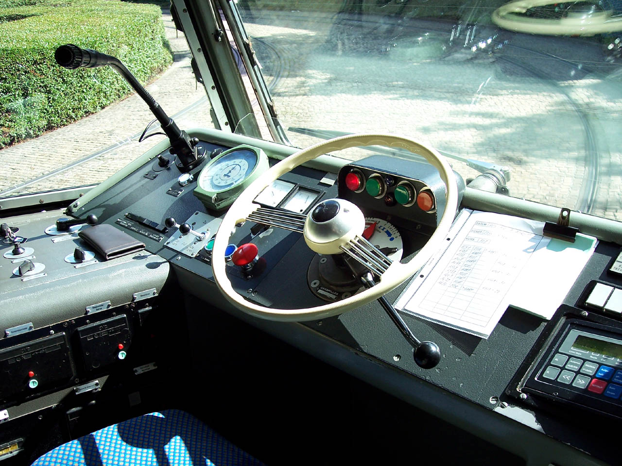 Trams in Zürich: Cab view of a Be 4/6 "Mirage". The wheel is used for controlling traction power and brakes.